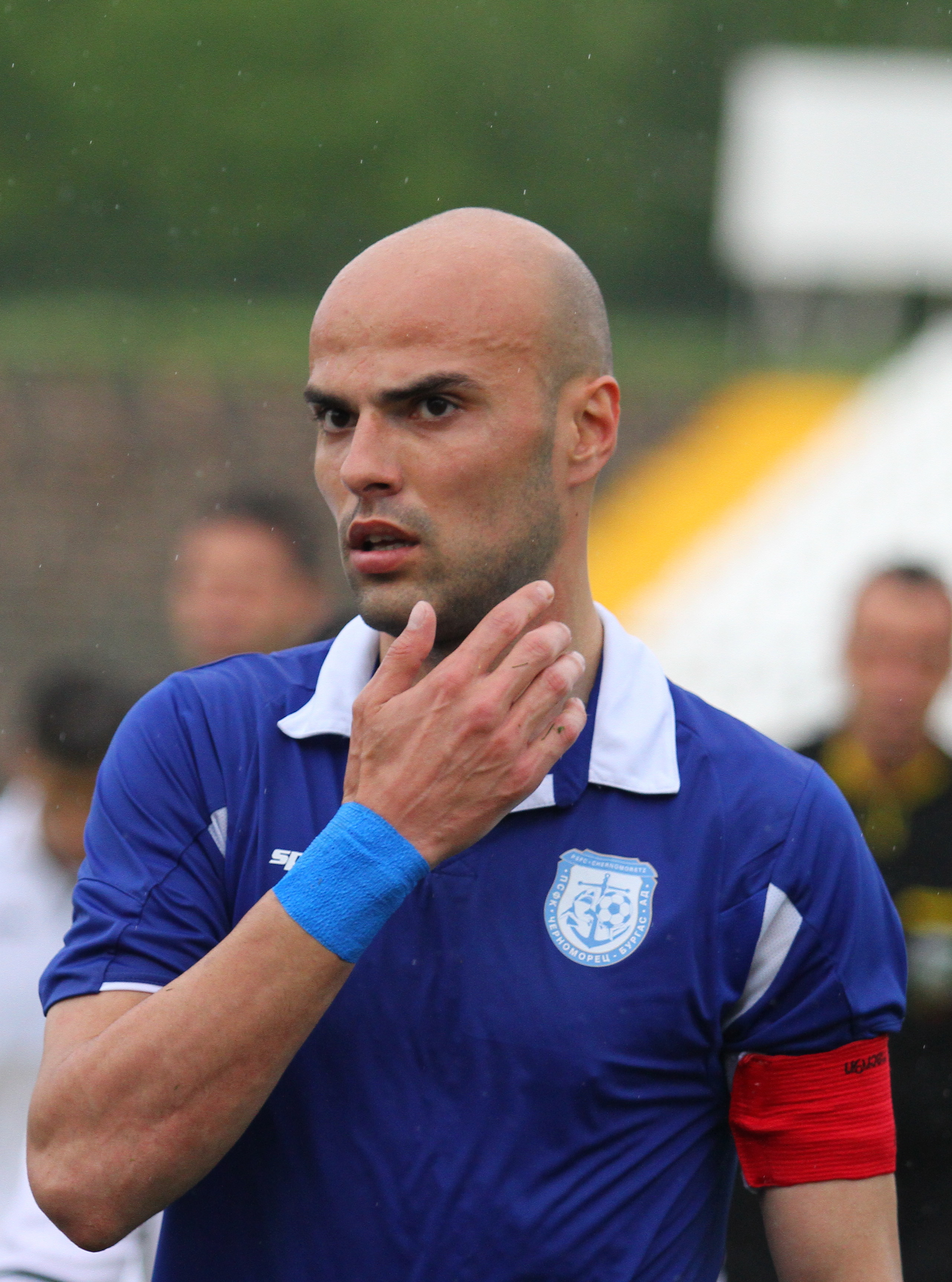 Trajan Trayanov - Bulgarian footballer, defender